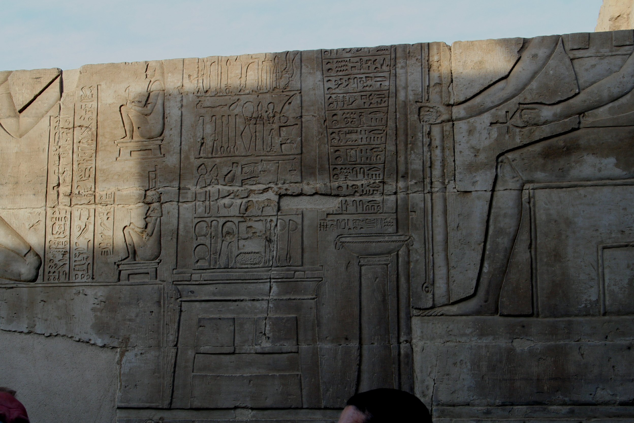 Temple of Kom Ombo - Medical instruments and prescriptions on rear wall